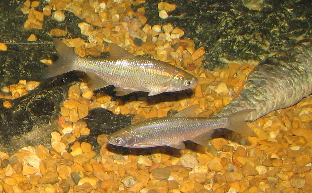 Striped Shiners (Luxilus chrysocephalus) Newport Aquarium